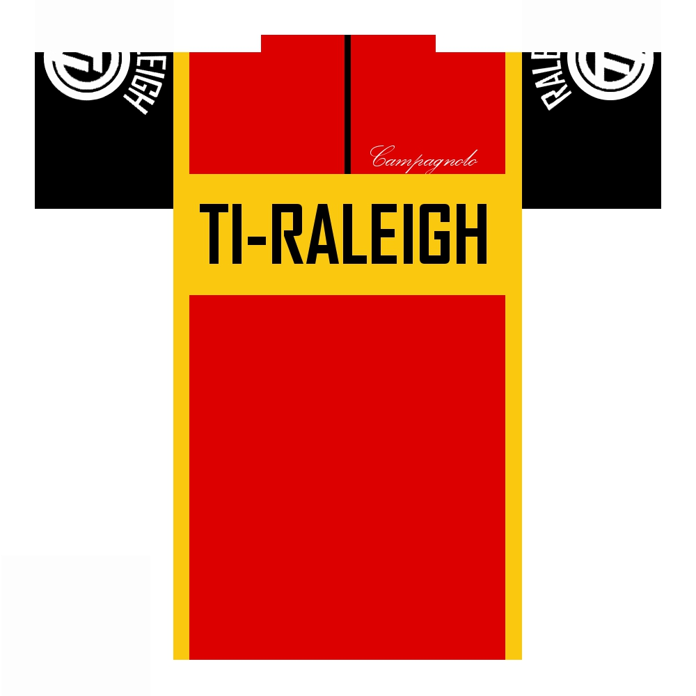 TI-Raleigh's jersey for the 1977 season